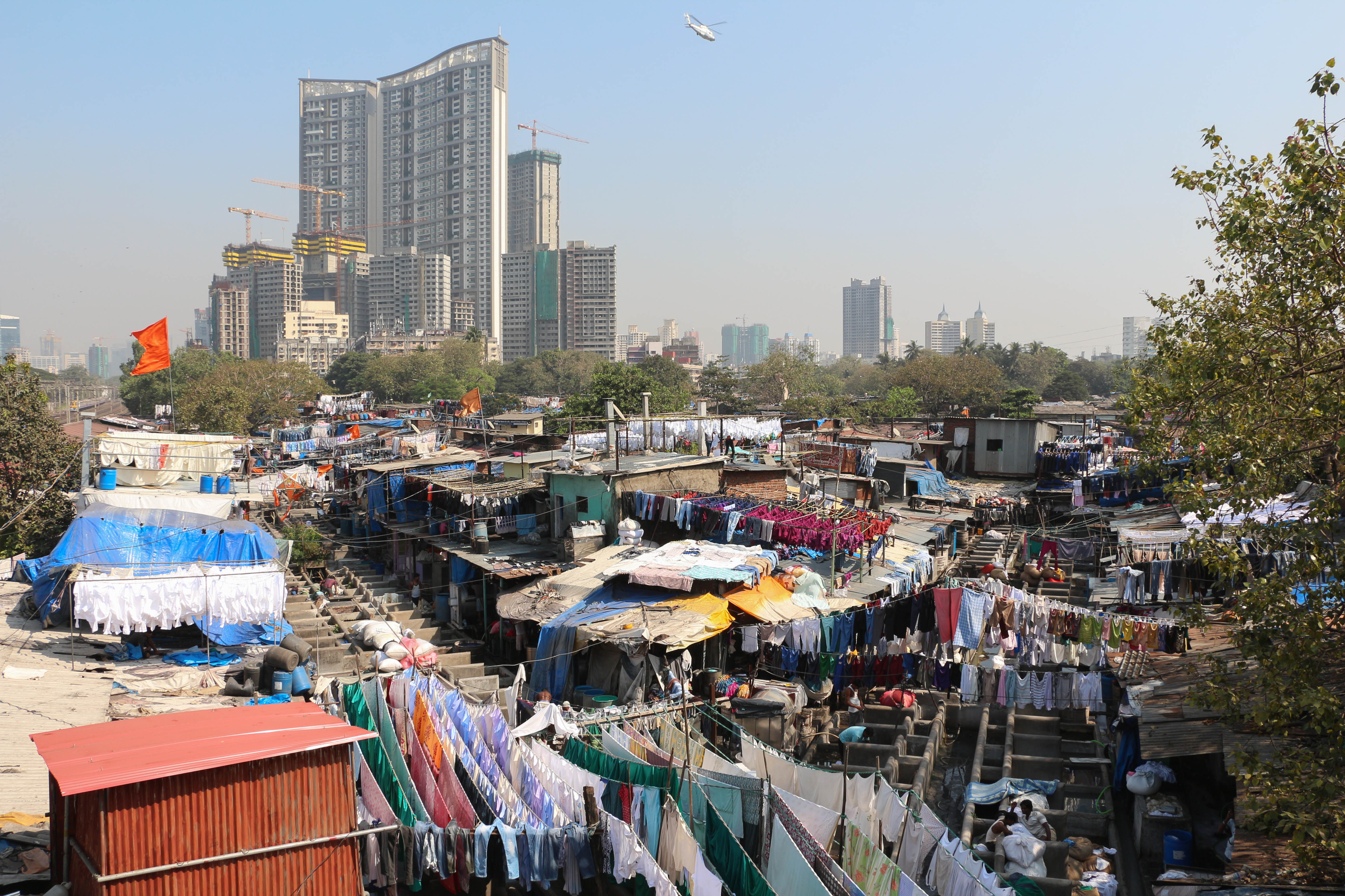 Dhobi Ghat, Mumbai, India